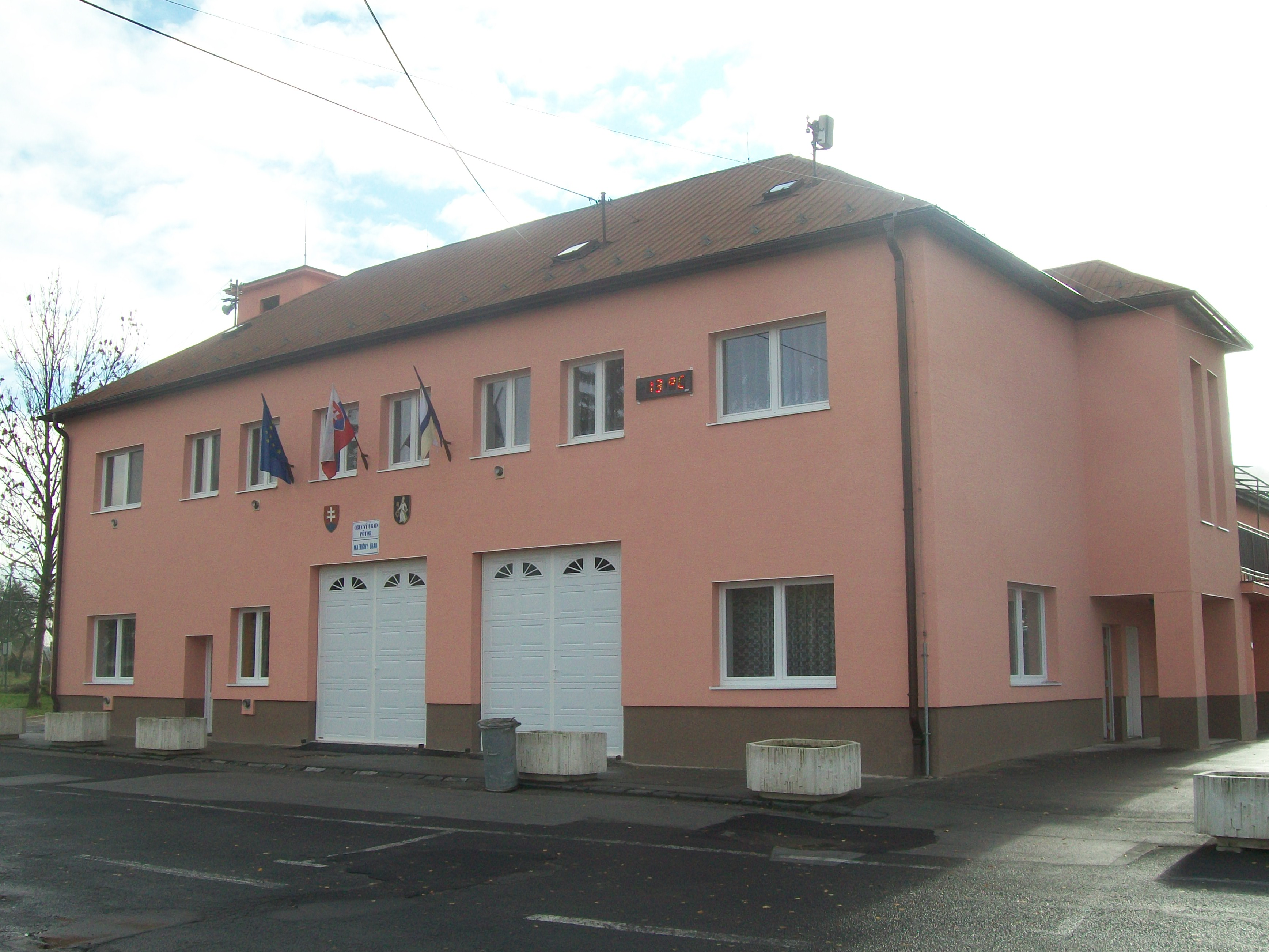 Municipal Office in PôtorSlovenčina: Obecný úrad v Pôtri